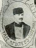 Portrait of IMARO member Tale Krastev from Galezhik?